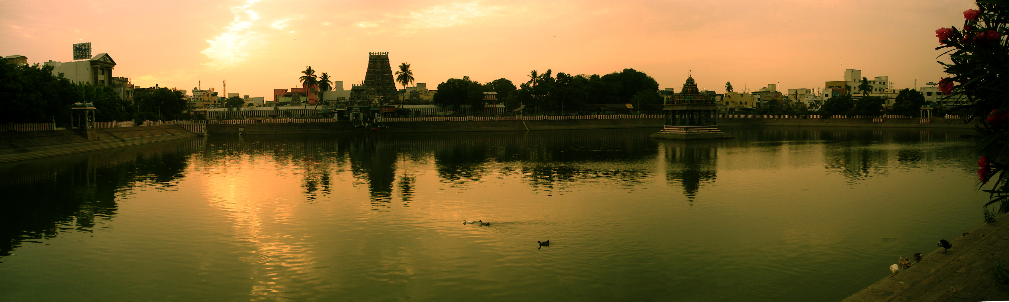 Temple tank of Kapaleeshwarar temple temple at dawn, Chennai.